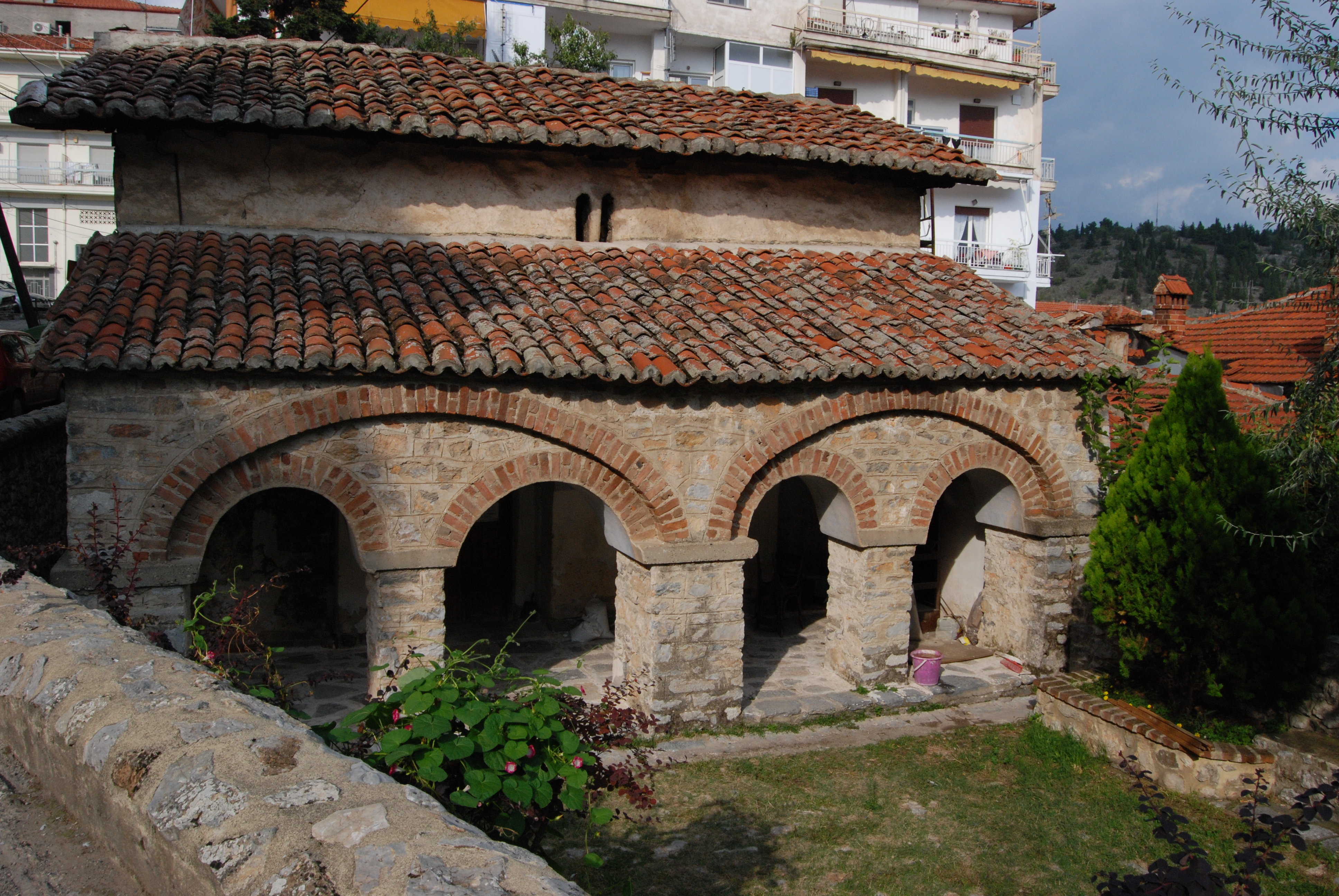 Church of Agii Treis, Kastoria, Greece.